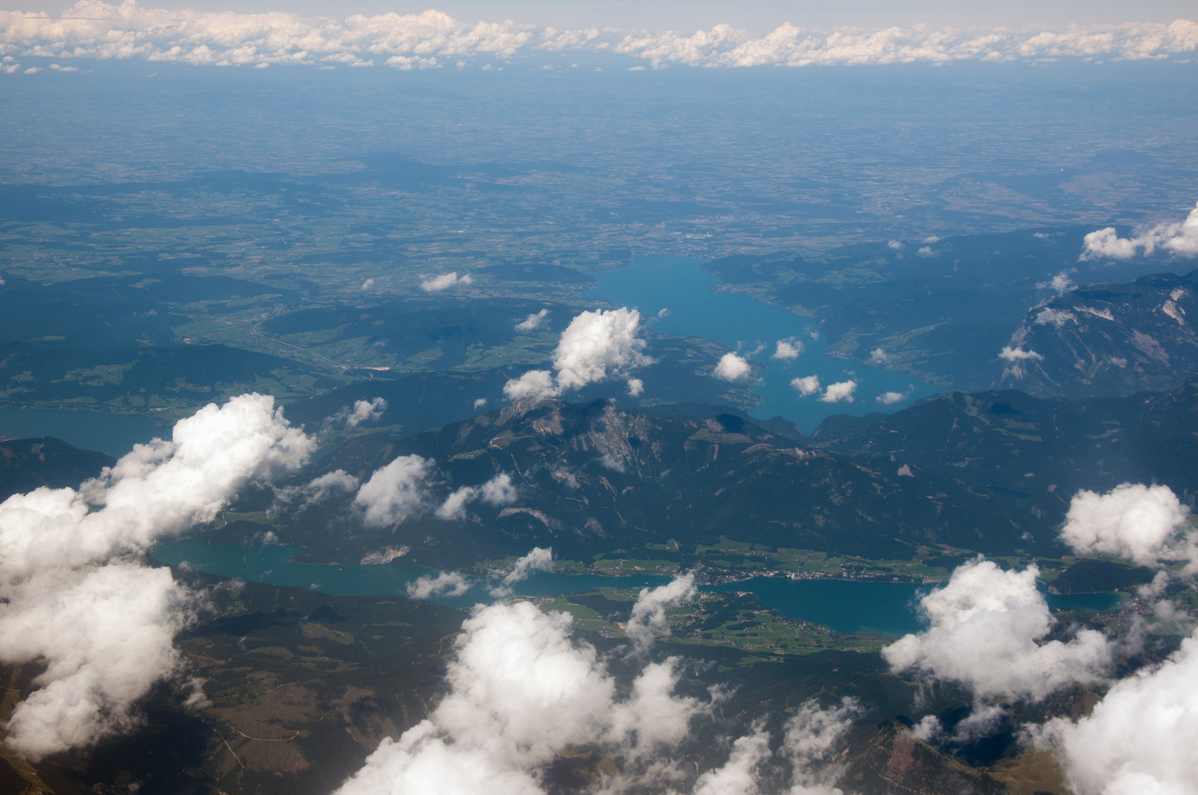 Aerial impressions between Belgrade and Munich